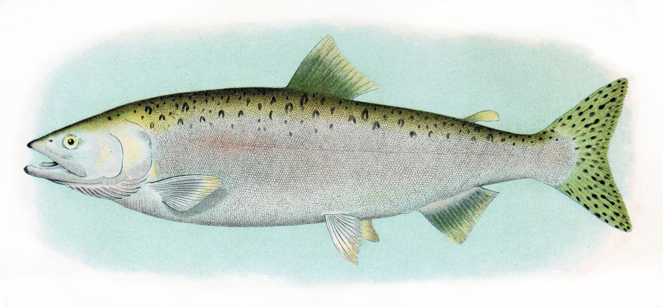 Humpback Salmon, Adult Male